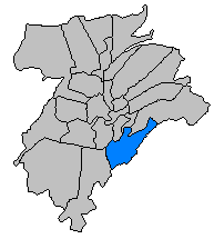 Map of Luxembourg City, Luxembourg, with the boundaries of the city's twenty-four quarters demarcated and the quarter of South Bonnevoie highlighted in blue.